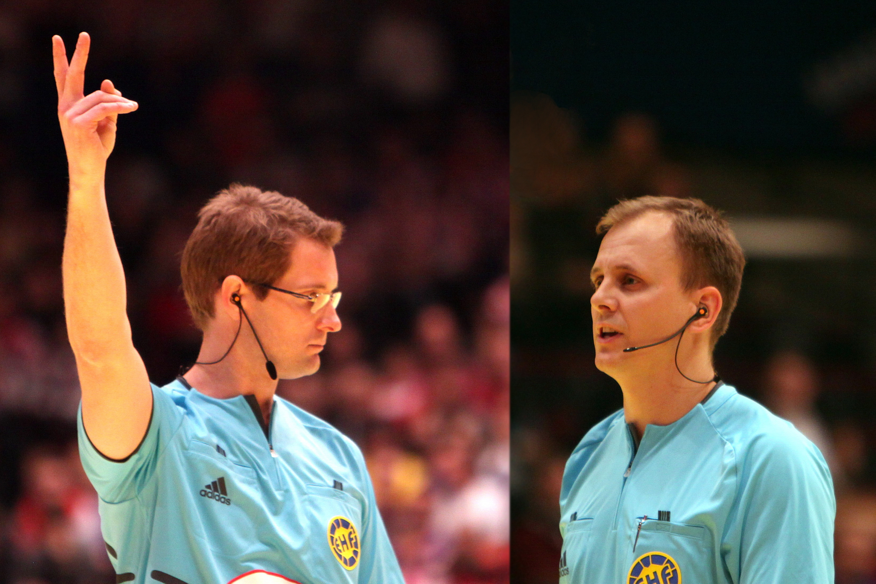 Rickard Canbro (left) and Mikael Clasesson (Sweden), Referees of the 2010 European Men's Handball Championship